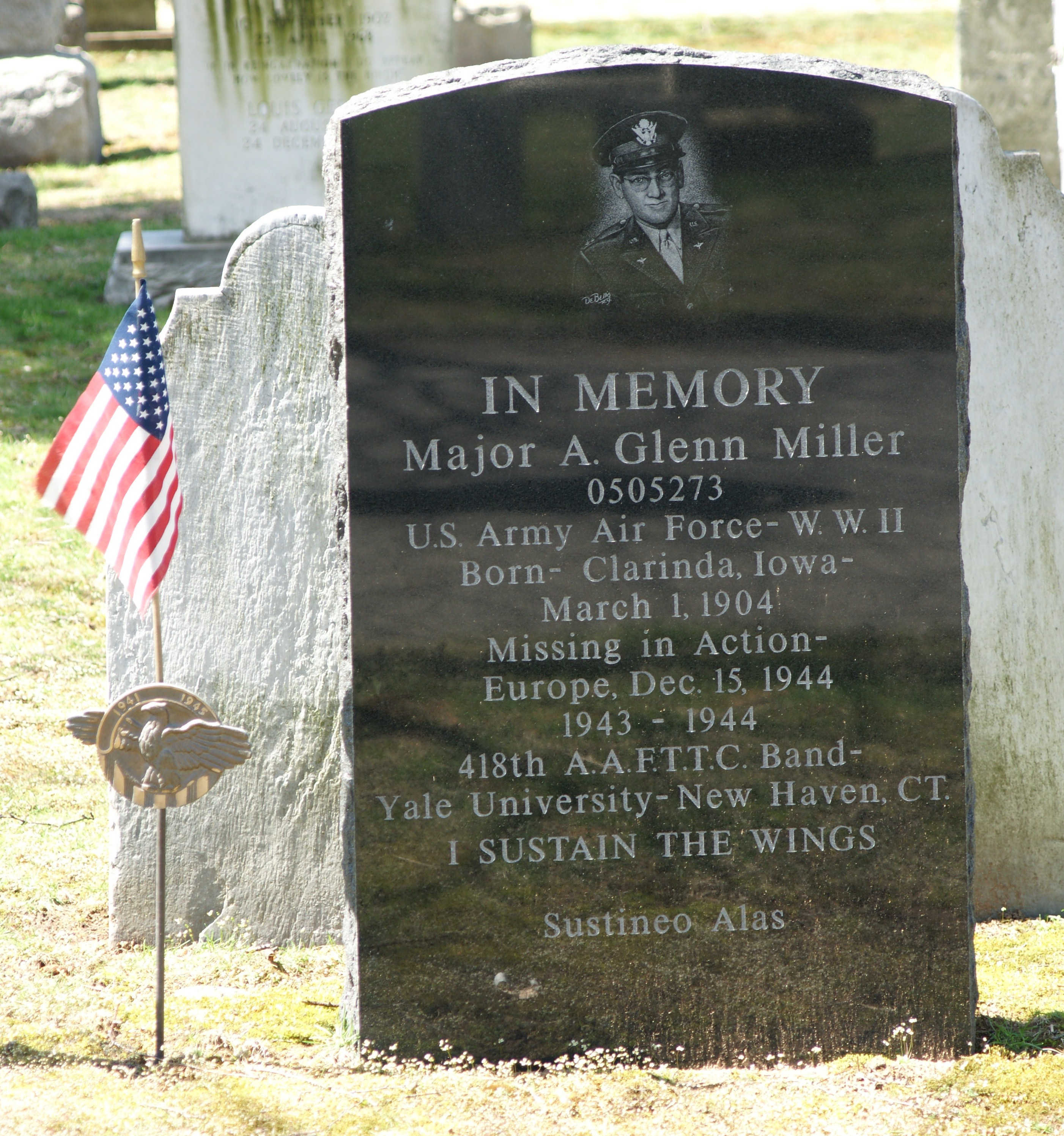 Glenn Miller monument in Grove Street Cemetery, New Haven, Connecticut. The monument stone contains an image of Miller near the top. The monument faces east.